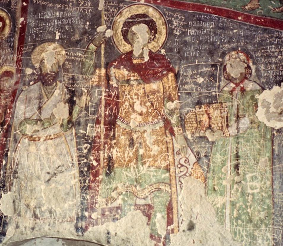 Picture of 13th century painting of Basil Giagoupes (Bασίλειος Γιαγούπης), St. George and the Lady Tamar (ή κυρά Θαμαρή) wife of Basil, wall painting in Cappadocia, Turkey..